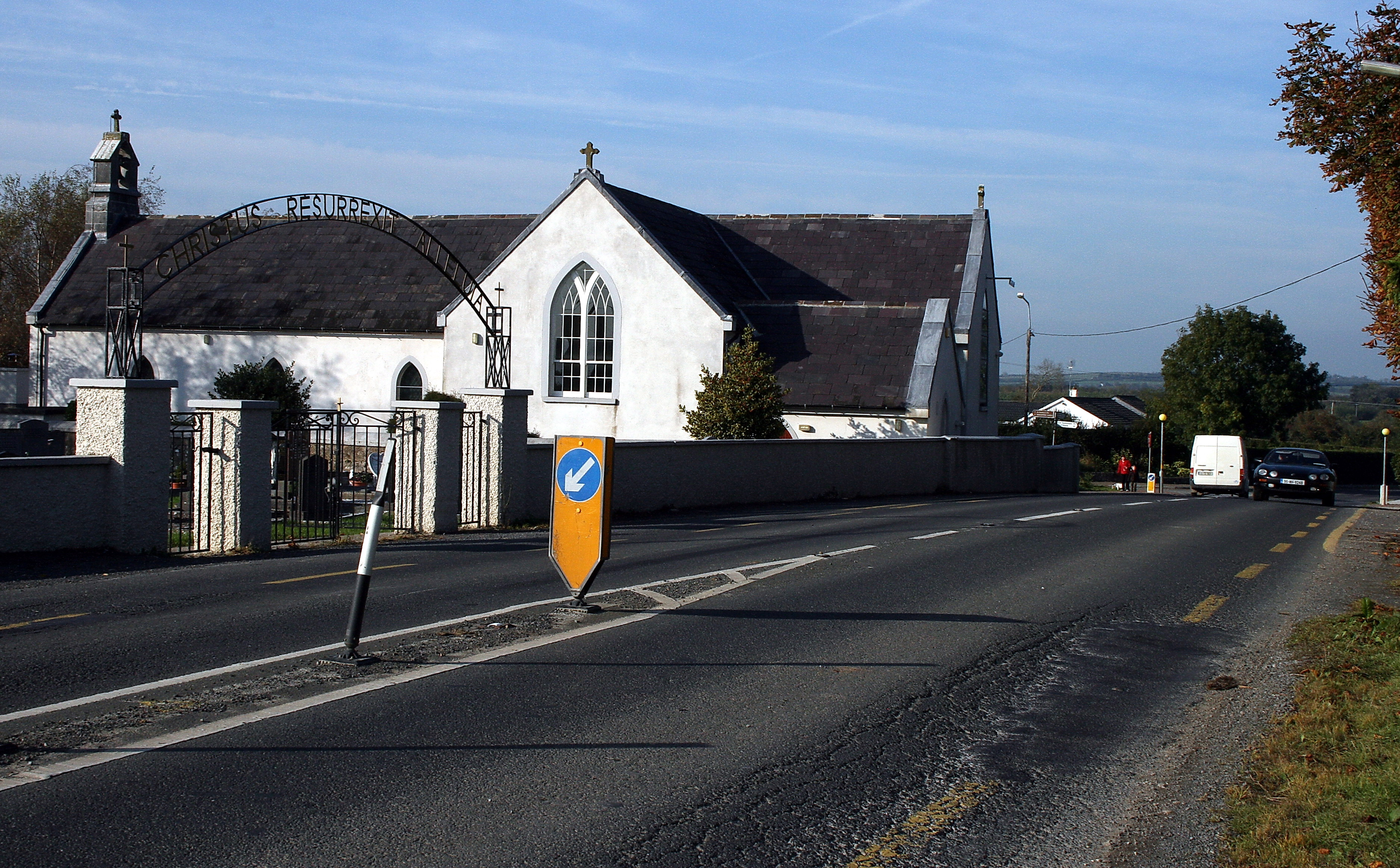 Lisronagh, County Tipperary, near to Lisronagh, Tipperary, Ireland. On the R689.